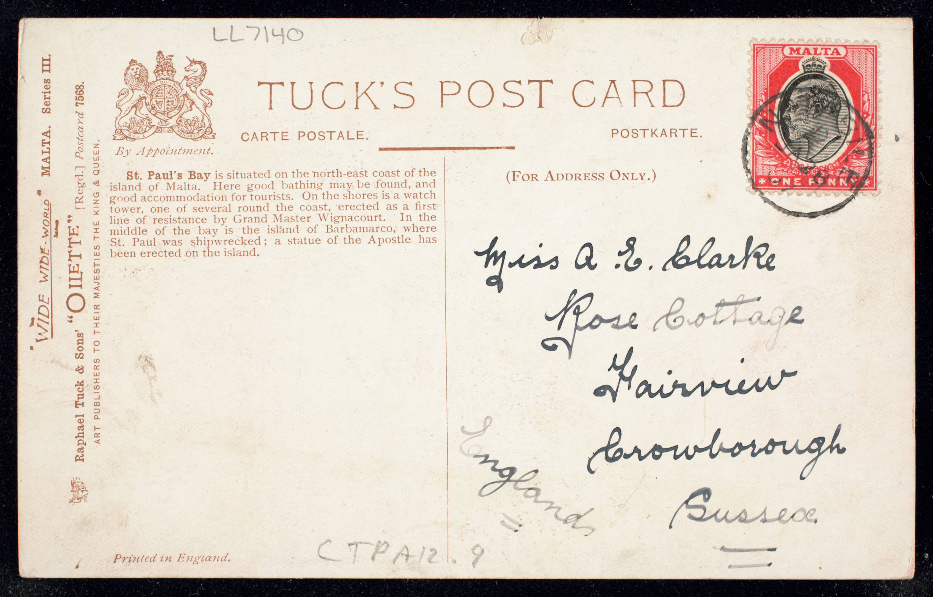 Malta St. Paul's Bay.